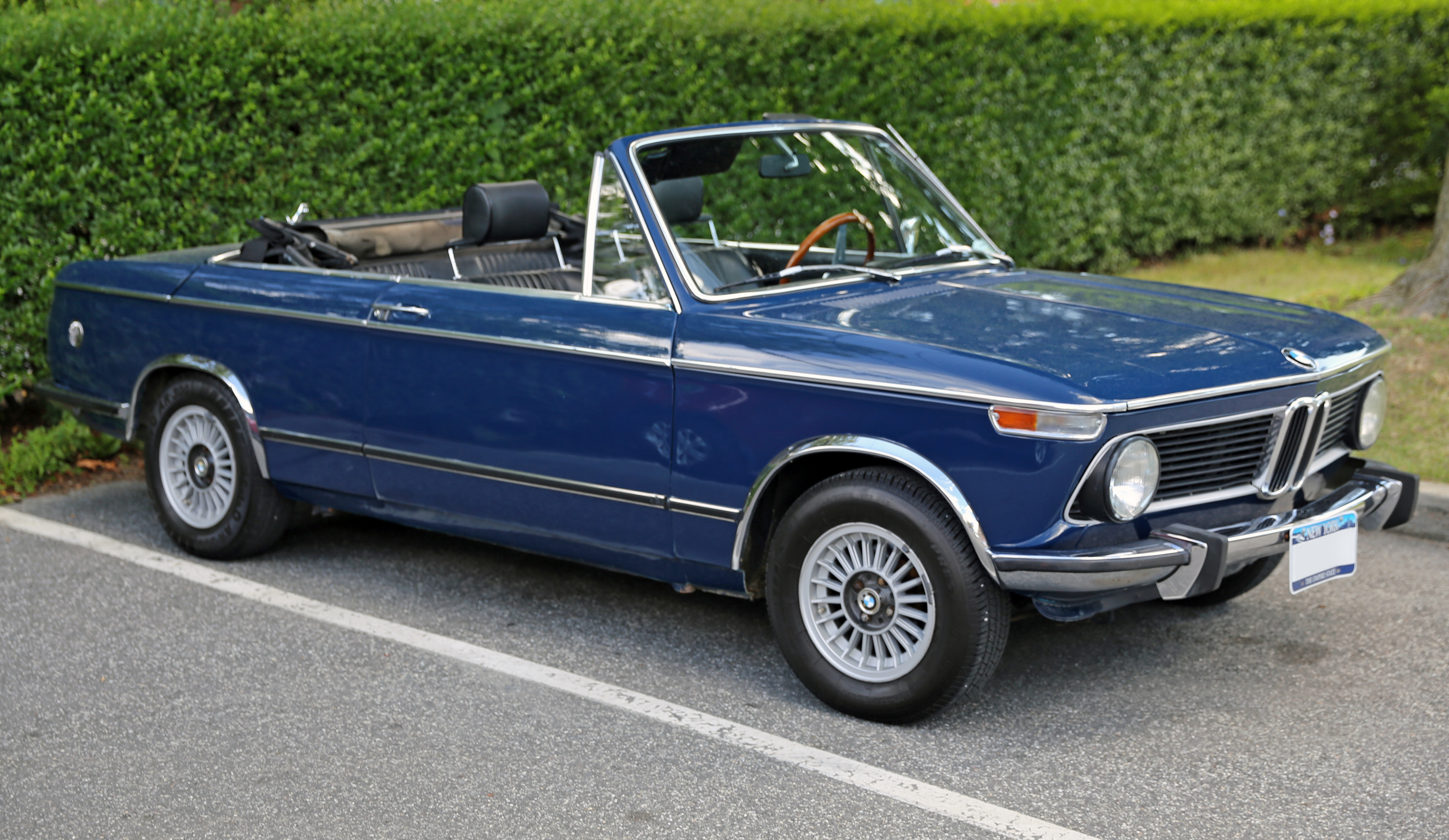 1971 BMW 2002 Cabriolet in a parking lot in East Hampton, NY. There were only about 200 full convertibles built of the 2002, by Baur, and this is a European spec example. Non-standard wheel and wheels, sadly.